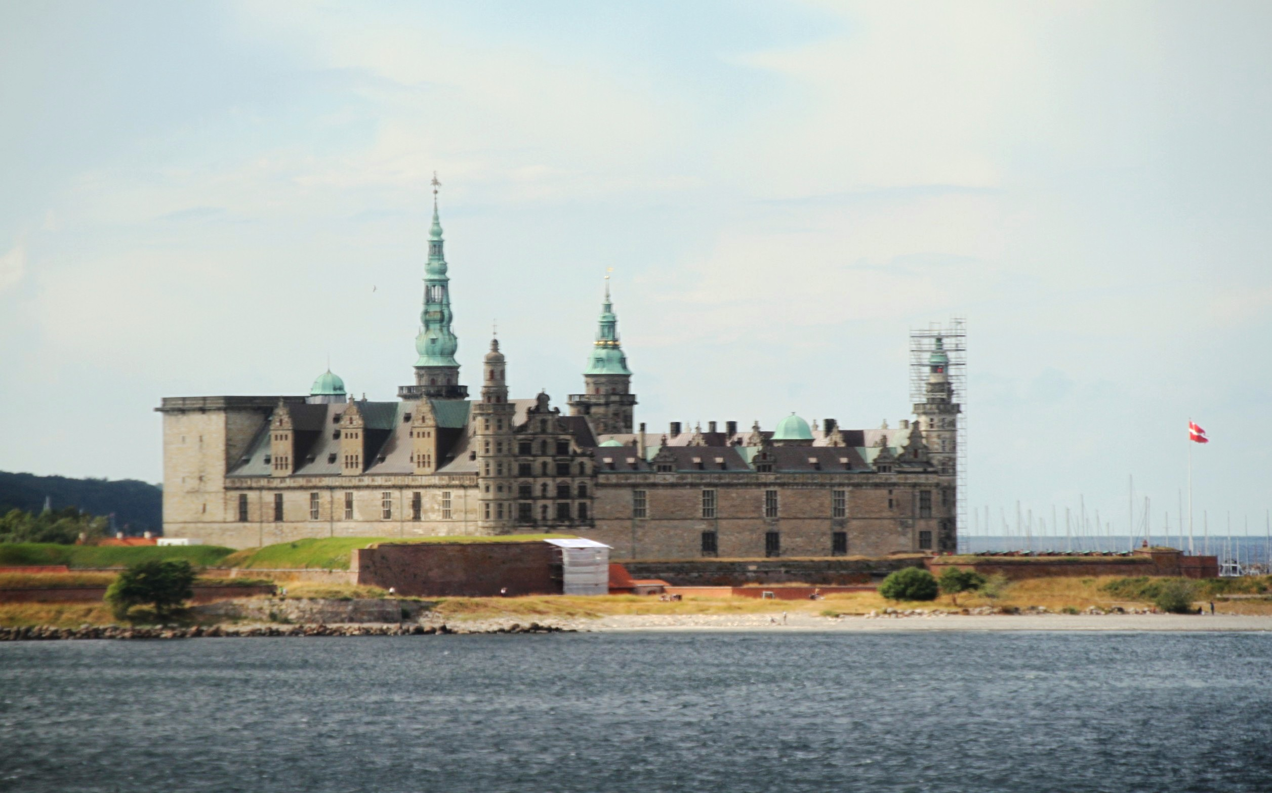 Kronborg Castle, in Helsingør, eastern Denmark.